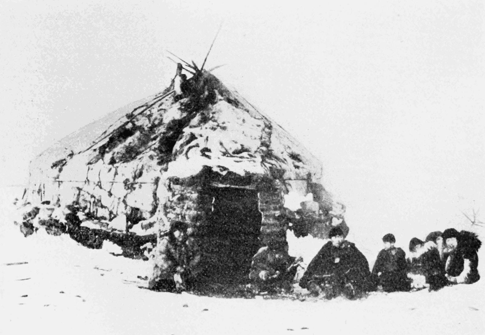 Chukchee winter house